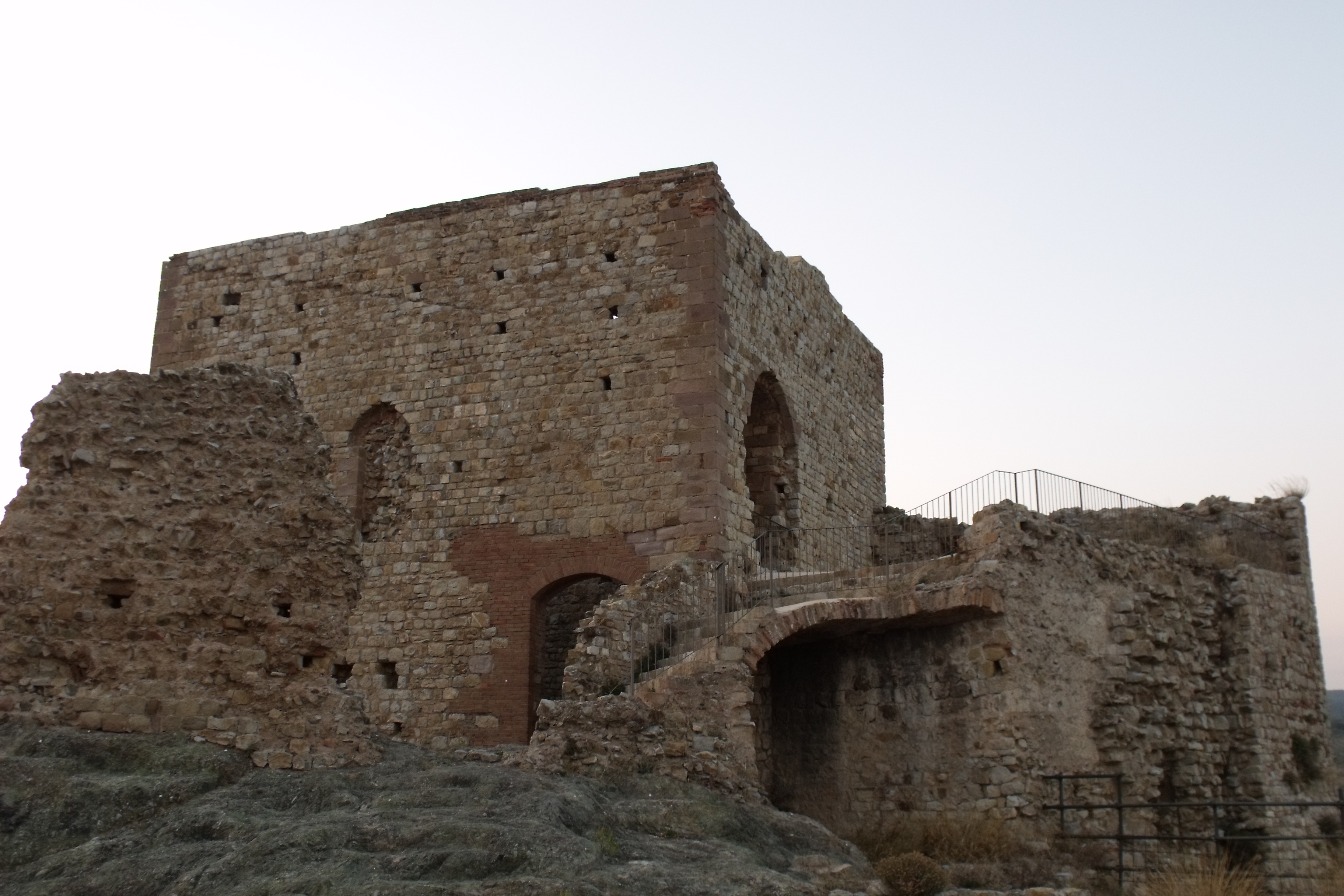 Main tower (Mastio / Bergfried) of the Castle in Montemassi, Municipality of Roccastrada, Province of Grosseto, Tuscany, Italy